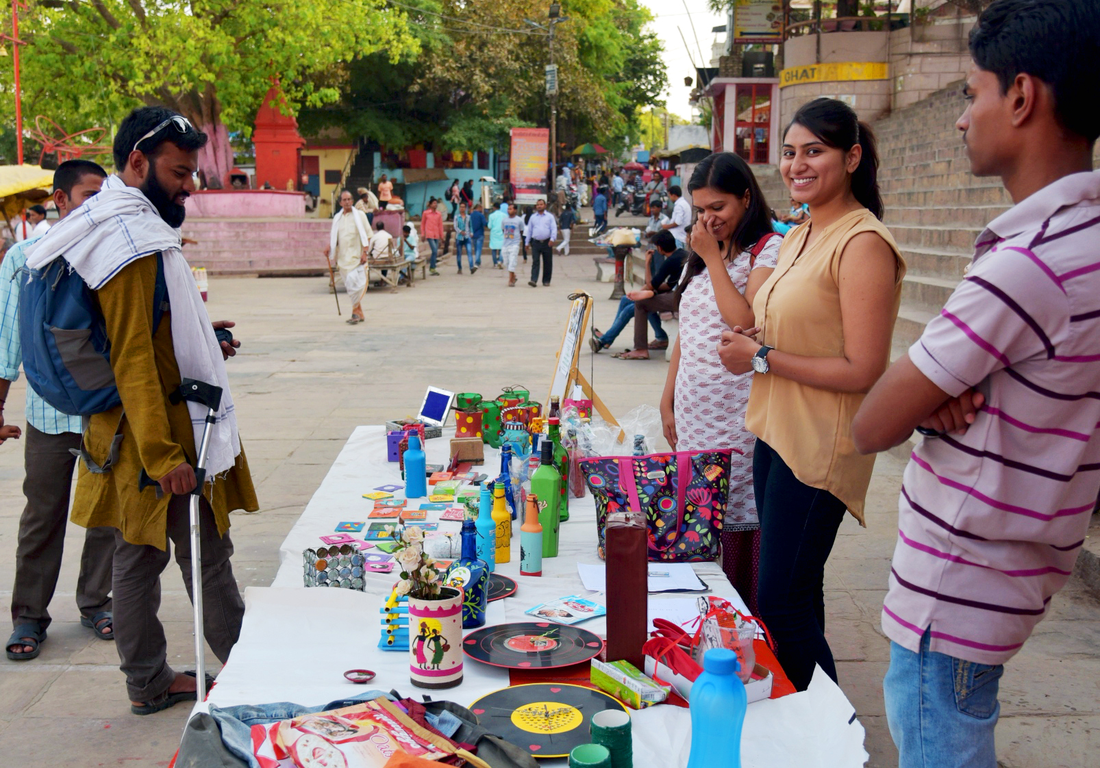 A shop at Assi Ghat